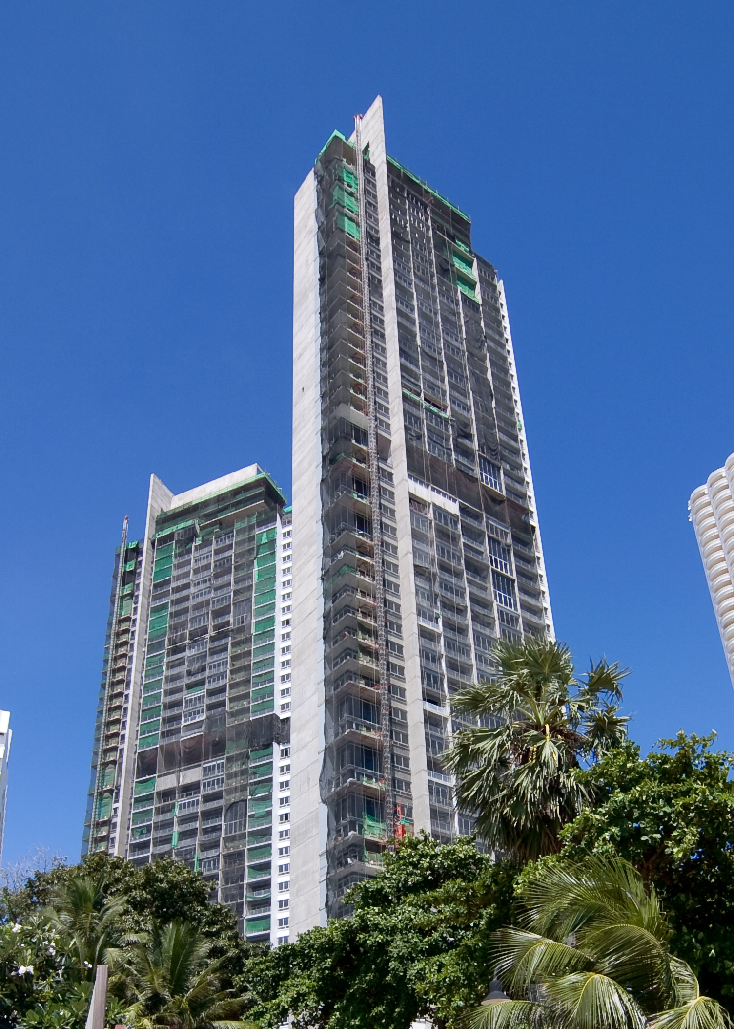 no orignal description